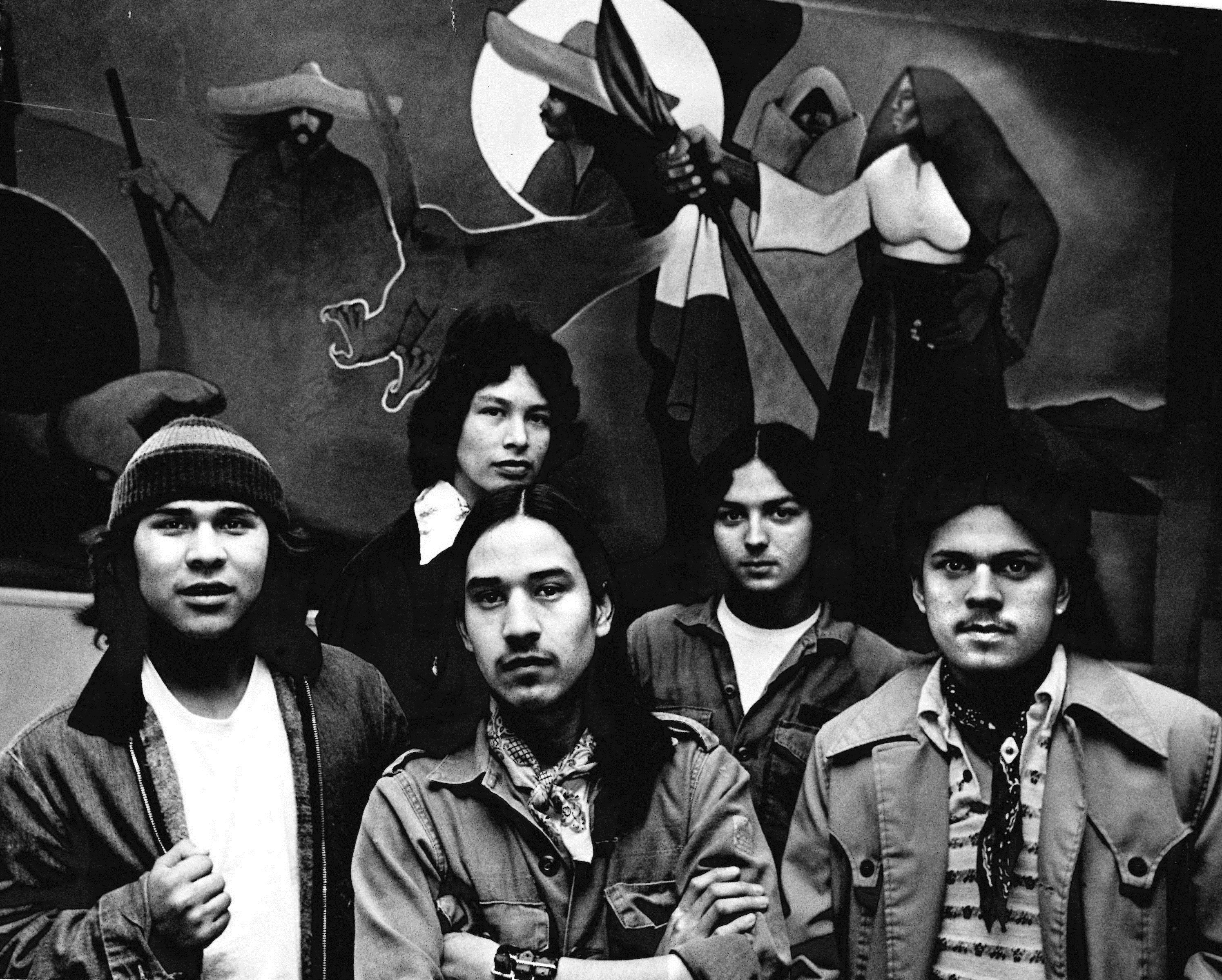 Tony Arce, Armando Losoya, Hernan Ortiz, and Riky Salas, pose in front of a mural they created at Colegio Cesar Chavez.